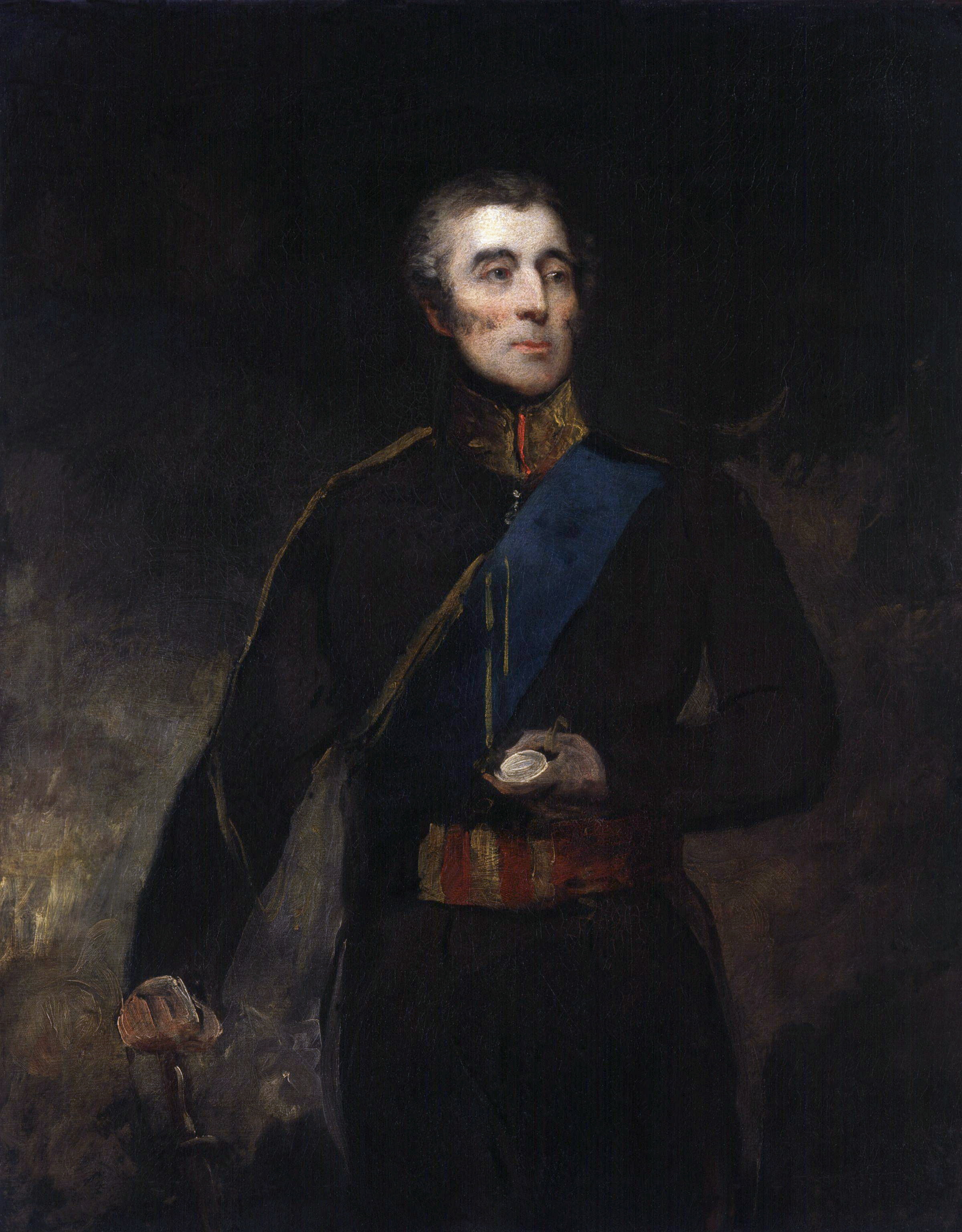 Arthur Wellesley, 1st Duke of Wellington